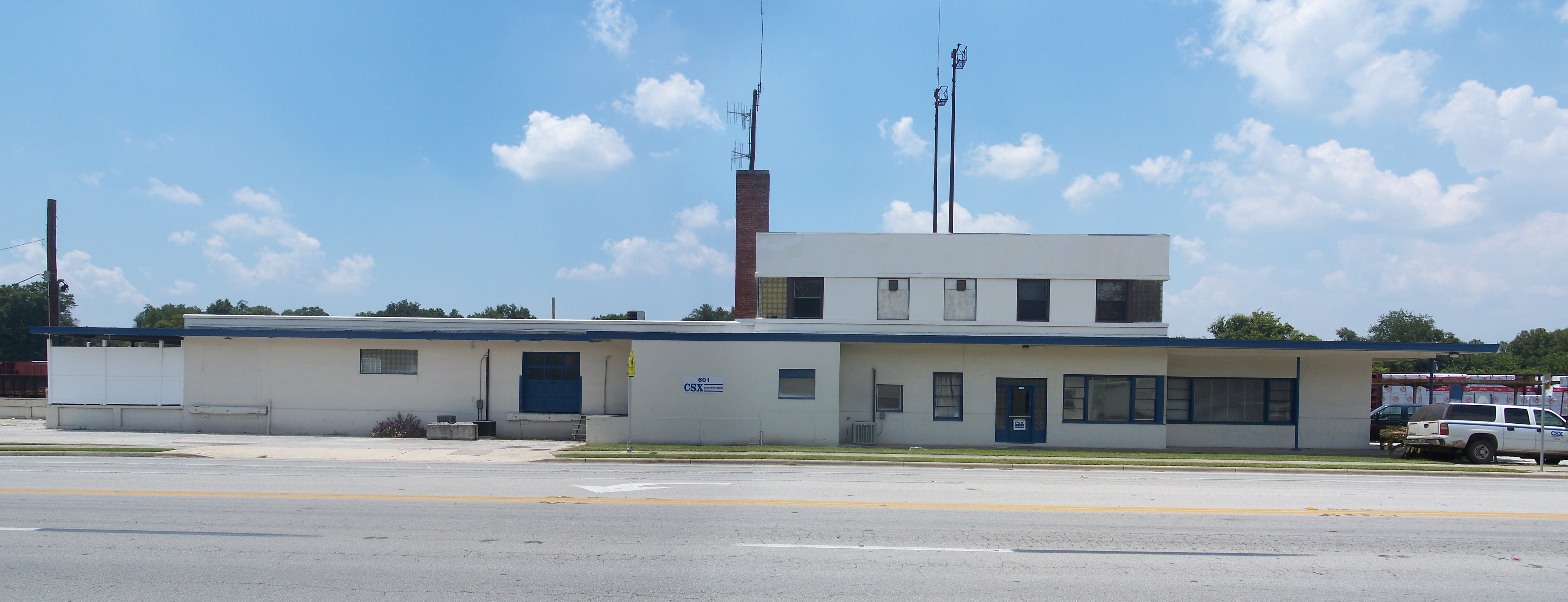 Wildwood, Florida: Panorama view of former Amtrak station. Now a CSX station and maintenance area.